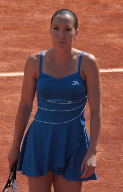 Jelena Janković at 2009 Roland Garros, Paris, France